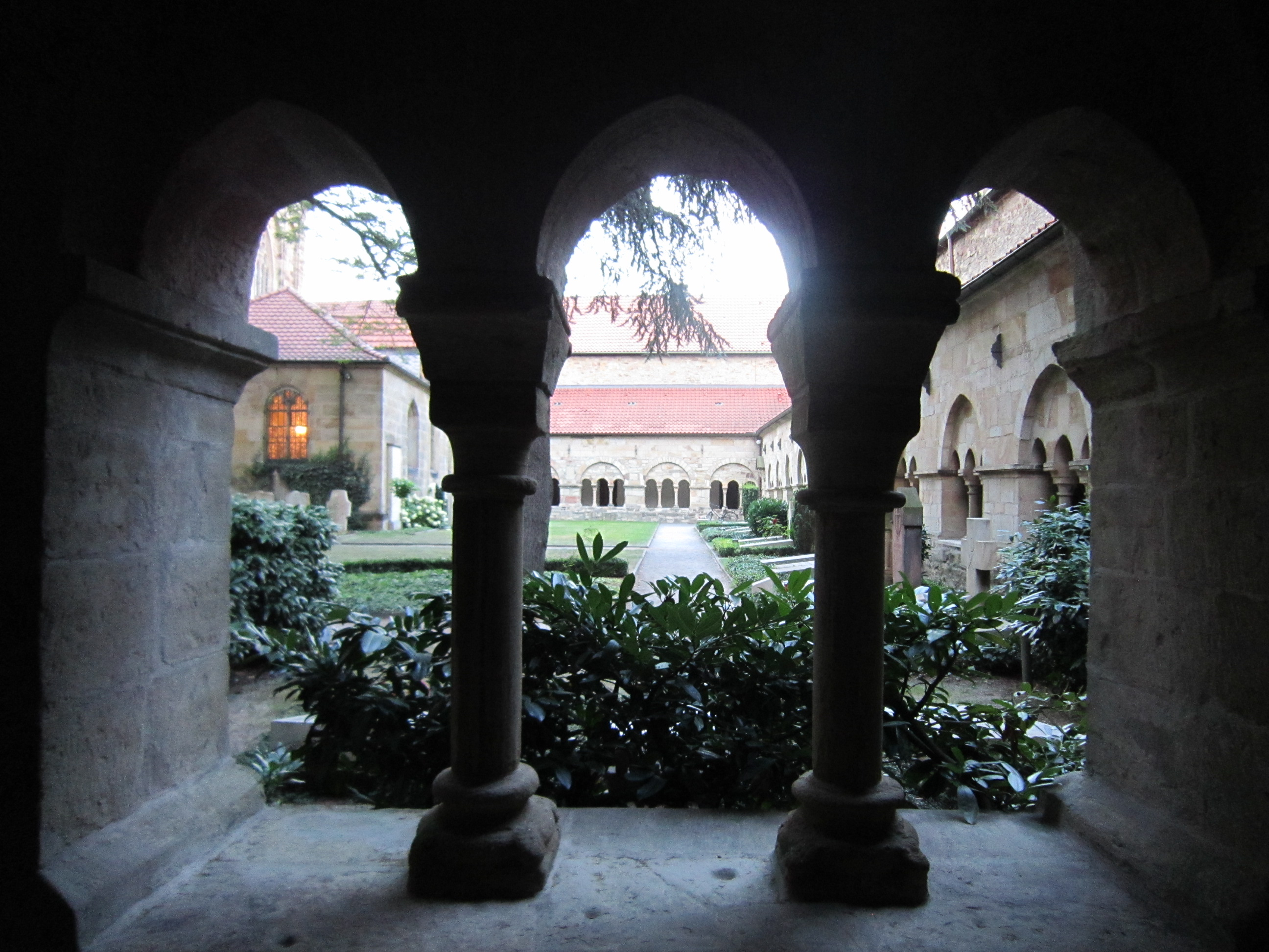 Inner yard of St. Peter Cathedral Osnabrueck